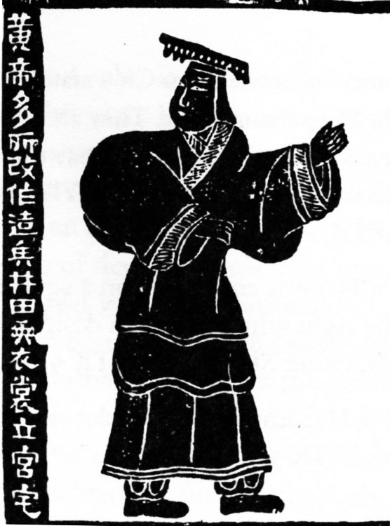 The Yellow Emperor, one of the mythical Five Sovereigns. Inscription reads: 'The Yellow Emperor created and changed a great many things; he invented weapons and the wells and fields system; he devised upper and lower garments, and established palaces and houses' (Birrell, Chinese Mythology, ISBN 0-8018-6183-7, p.48) / The Yellow Emperor, one of the mythical Five Sovereigns. Inscription reads: 'The Yellow Emperor created and changed a great many things; he invented weapons; he divide fields; he devised upper and lower garments, and established palaces and houses' (周家华, translated according to another understanding. )